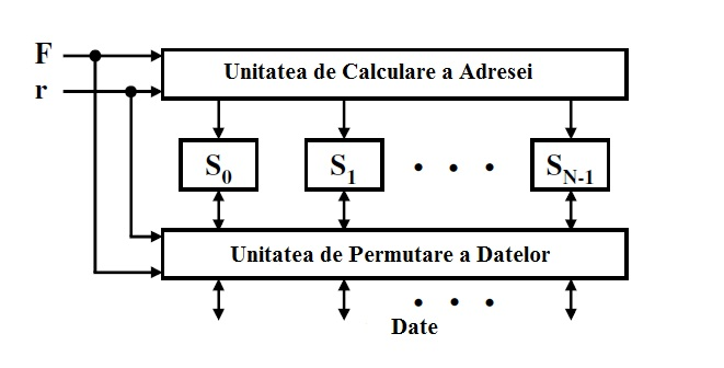 memorie paralela schema